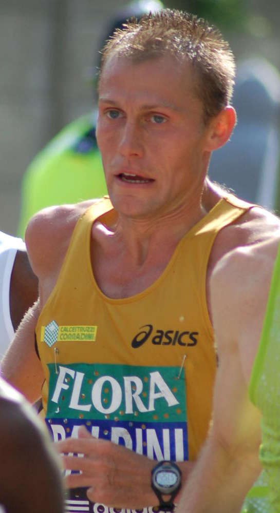 Stefano Balidini at London Marathon